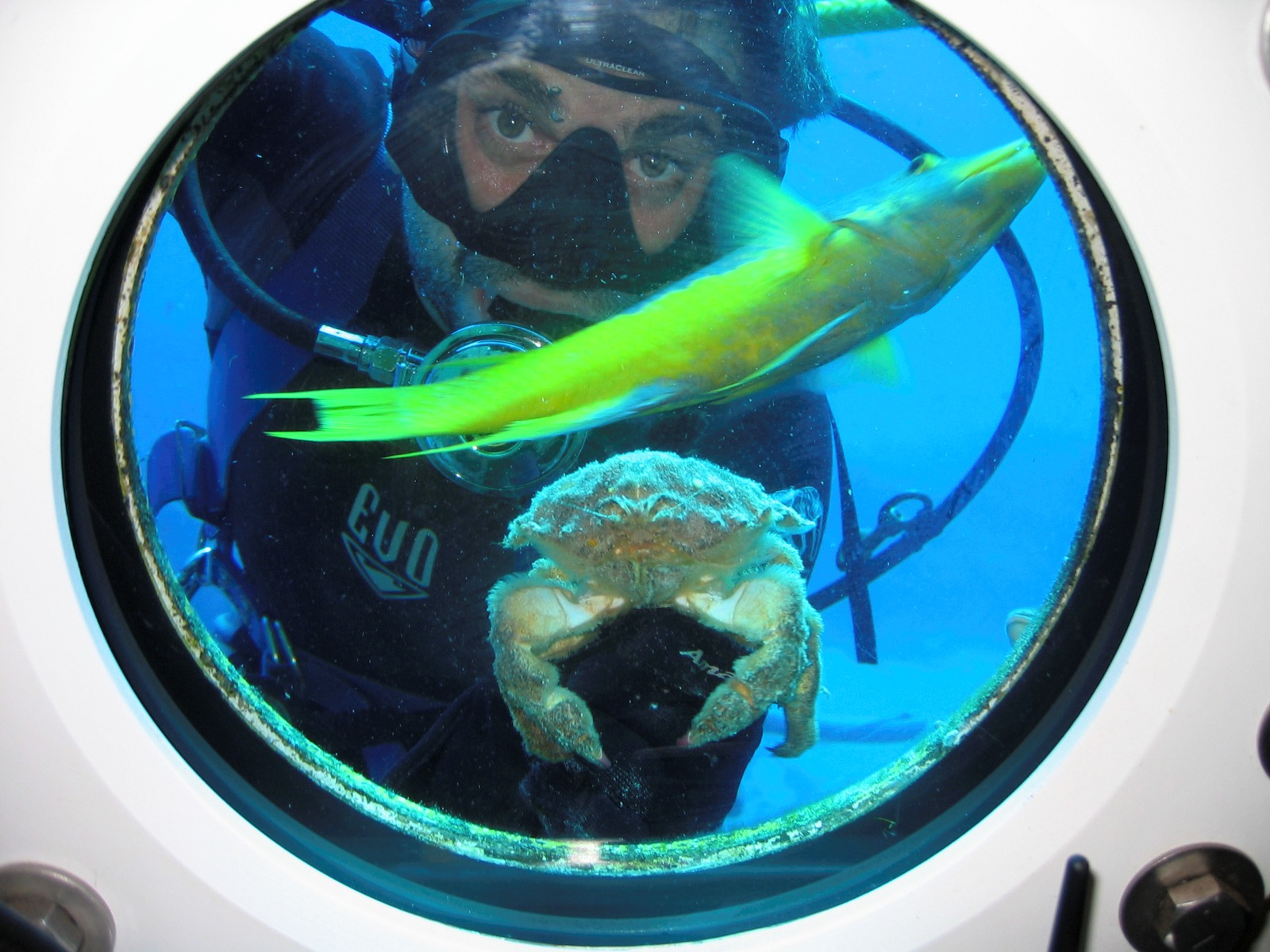 Aquarius underwater habitat technician Dewey Smith and two sea creatures seen from inside the habitat through a viewport during the NASA-NOAA NEEMO 13 mission in August 2007. Smith subsequently died during a dive from Aquarius in May 2009. NASA image JSC2007-E-42267 (11 August 2007).